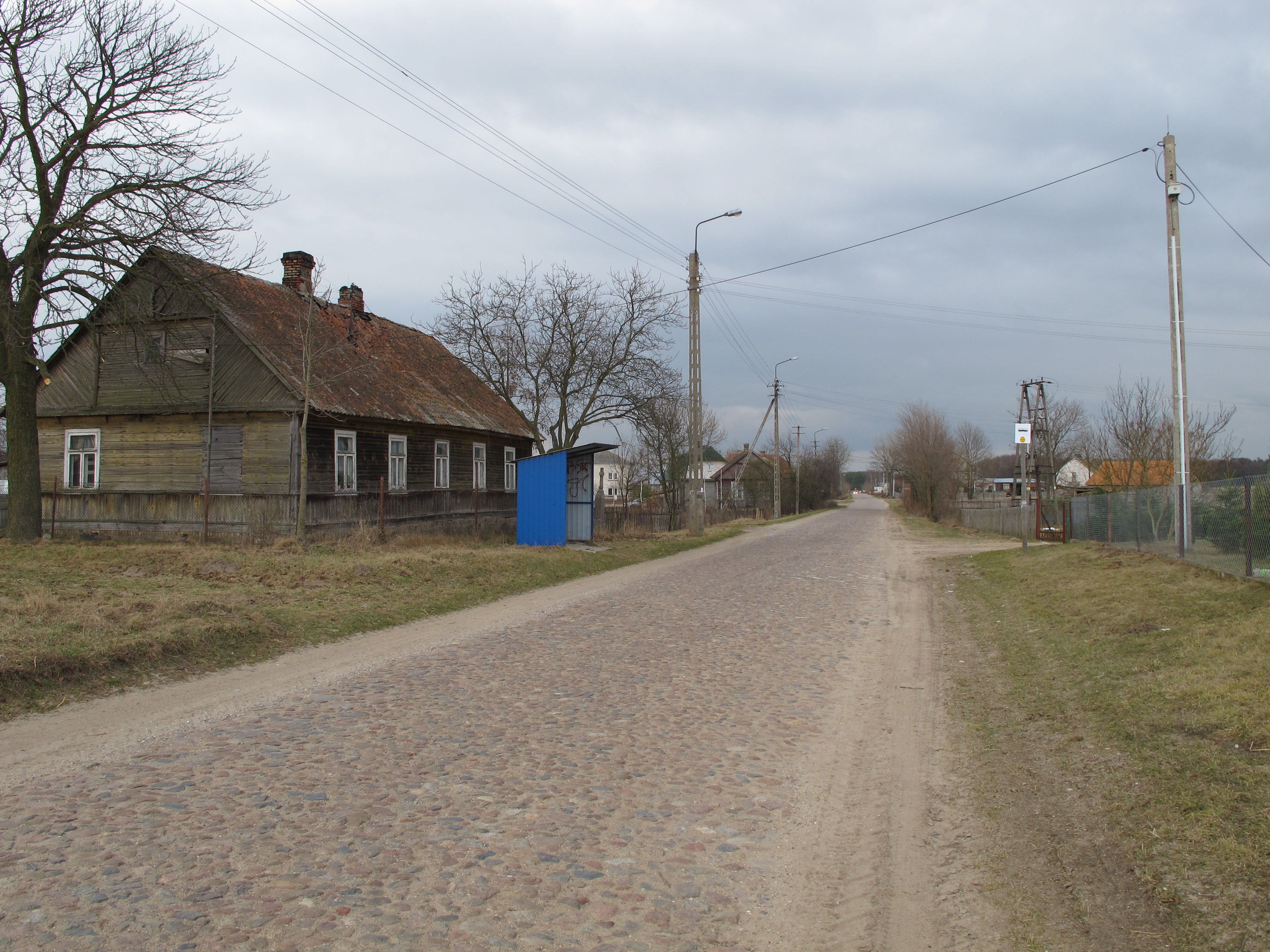 Rogowo-Majątek, gm. Choroszcz, podlaskie, Poland.